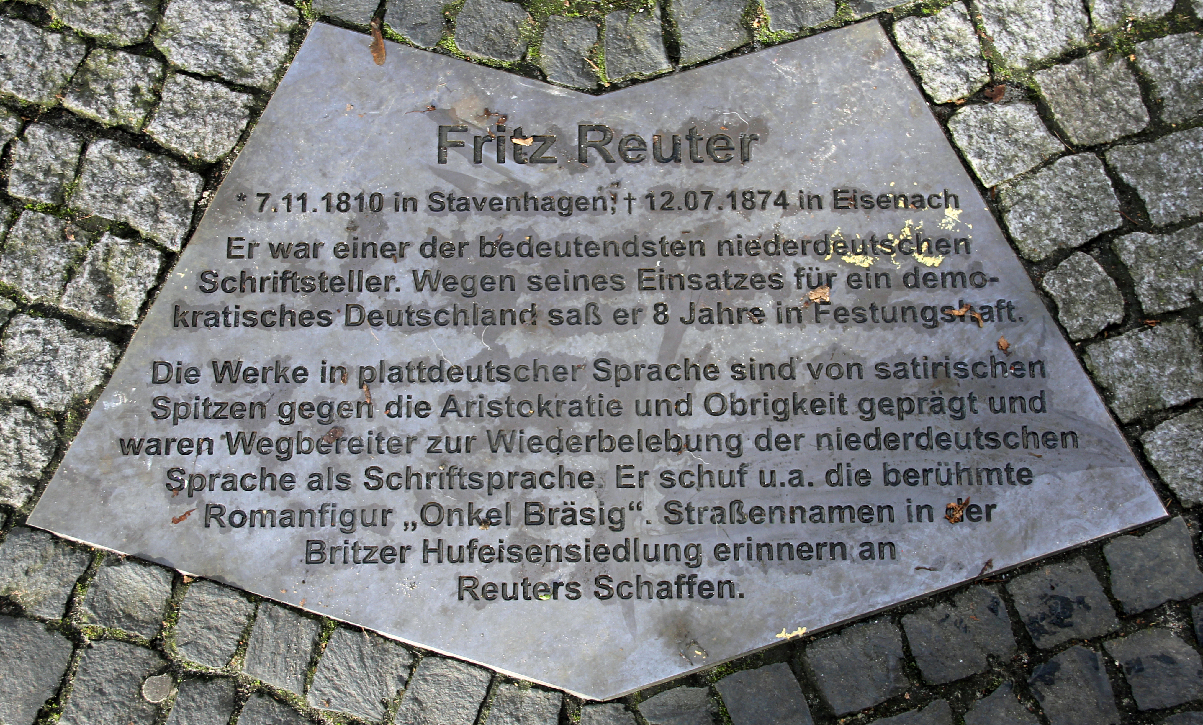 Memorial plaque, Fritz Reuter, Reuterstraße 7, Berlin-Neukölln, Deutschland